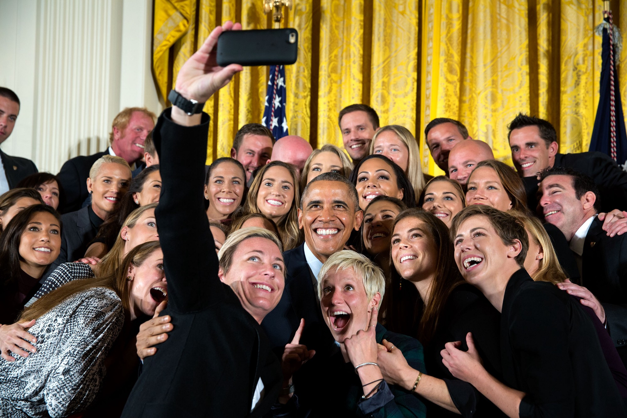 Oct. 27, 2015 "The President participates in a group selfie in the East Room with the United States Women's National Soccer Team celebrating their victory in the 2015 FIFA Women's World Cup." (Official White House Photo by Lawrence Jackson)